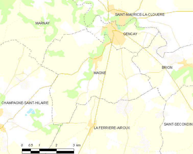 Map of French municipality Magné